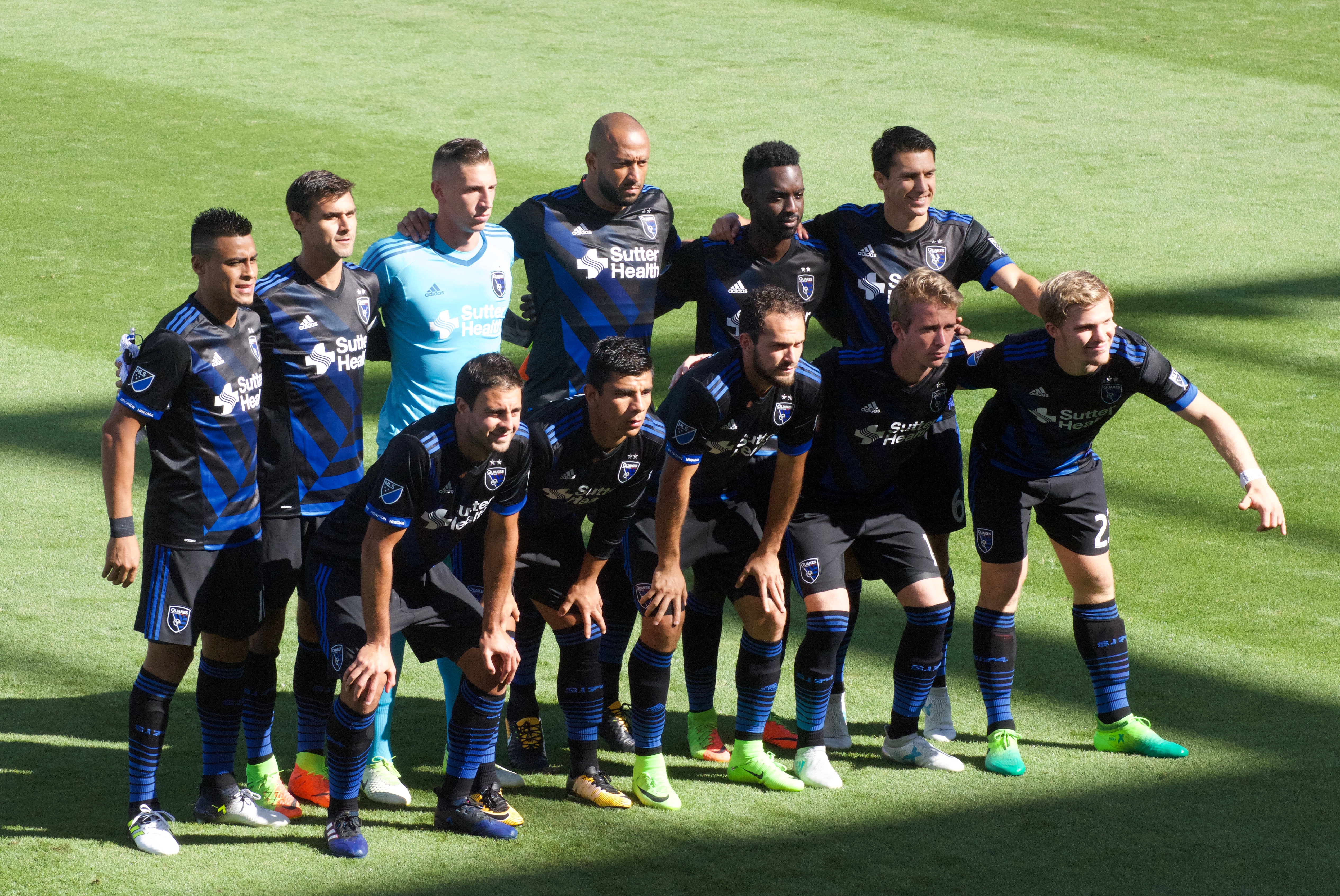 San Jose Earthquakes Team Photo 29 July 2017, Avaya Stadium